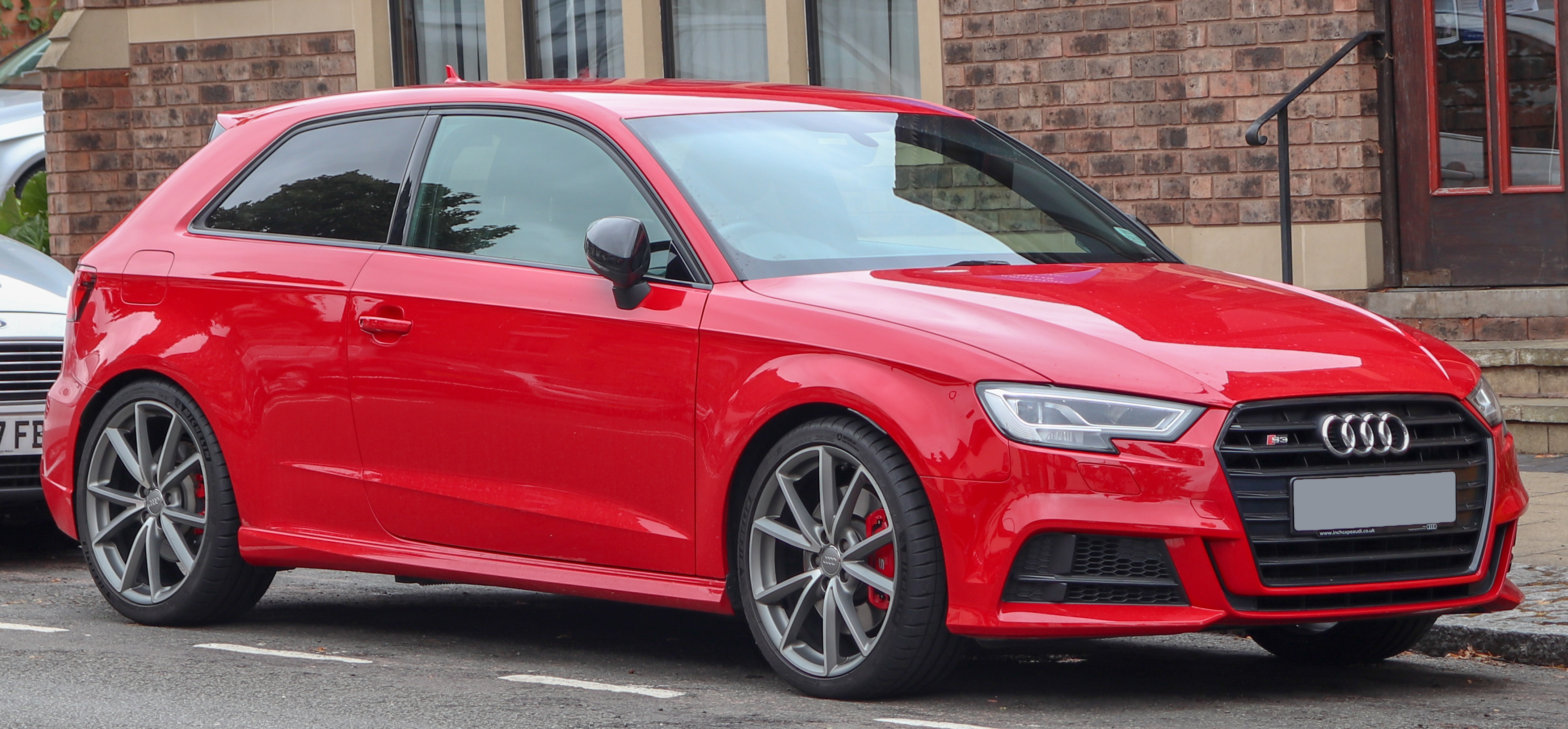 2017 Audi S3 Black Edition TFSi Quattro 2.0 Front Taken in Warwick